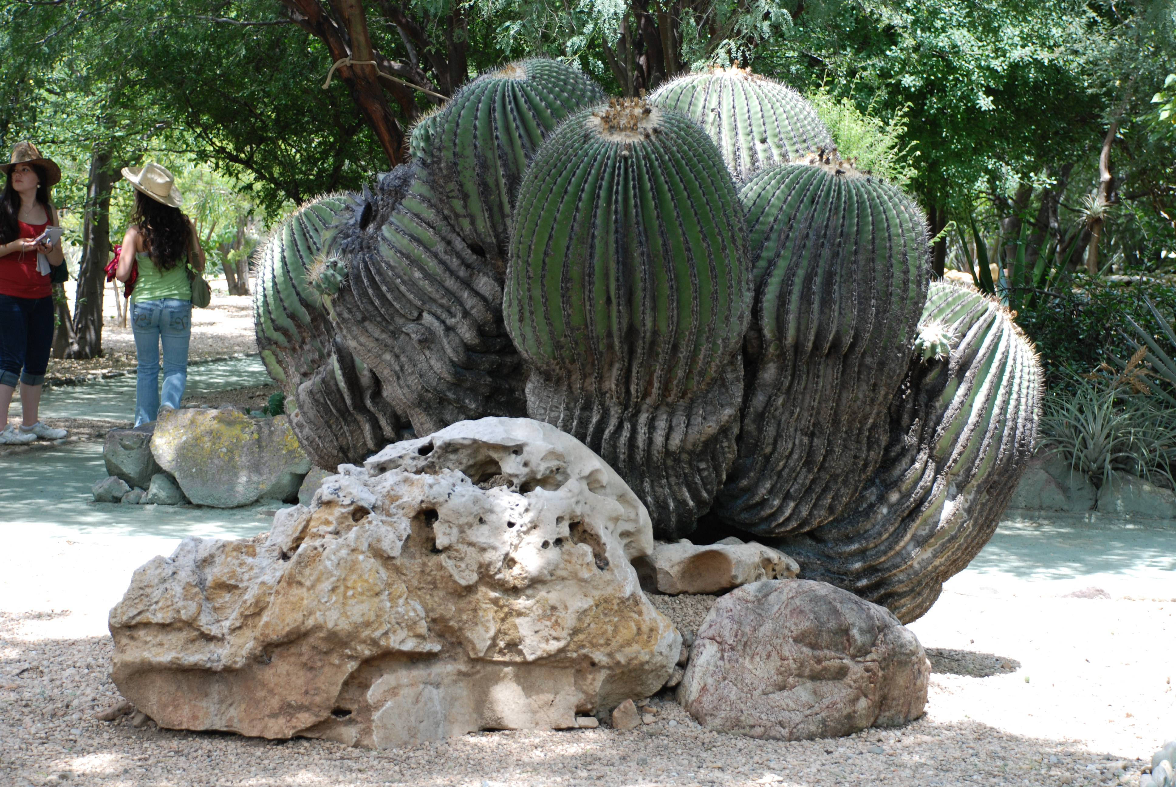 Cactus "biznaga", Etnobotanical Museum, Oaxaca, Mexico